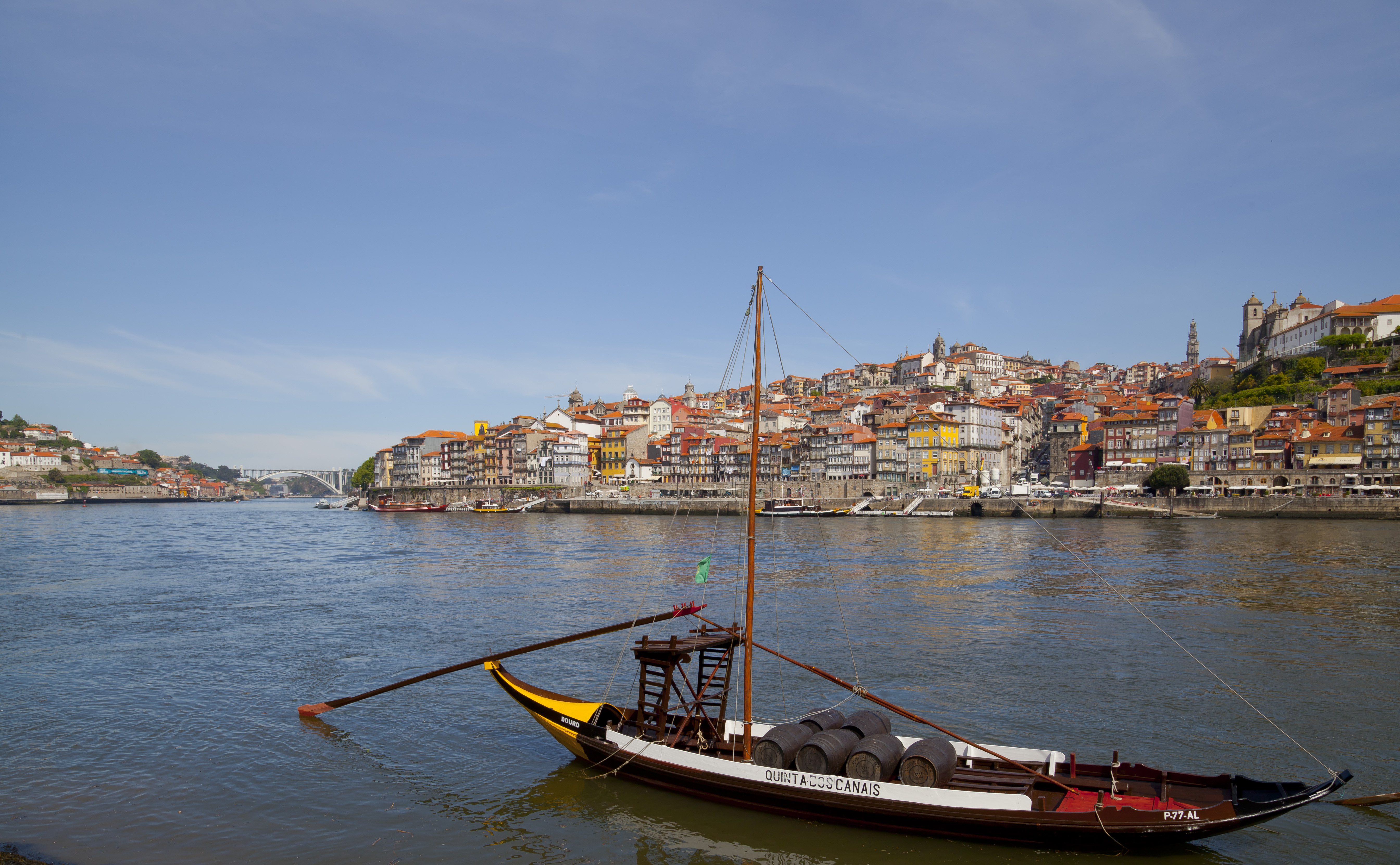 Rabelos in the Duero river, Vila Nova de Gaia, Portugal